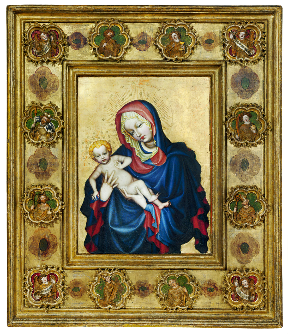 Madona from St. Vitus Cathedral in Prague (around 1400), collections of the National Gallery in Prague